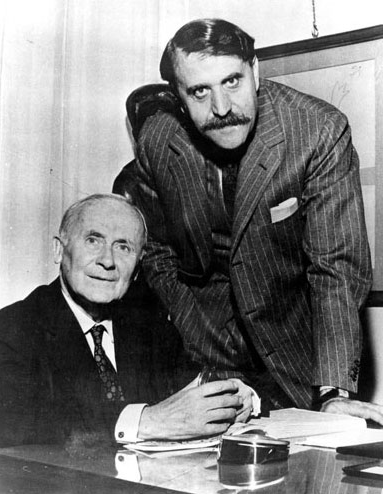 Carlo Cardazzo and Joan Mirò